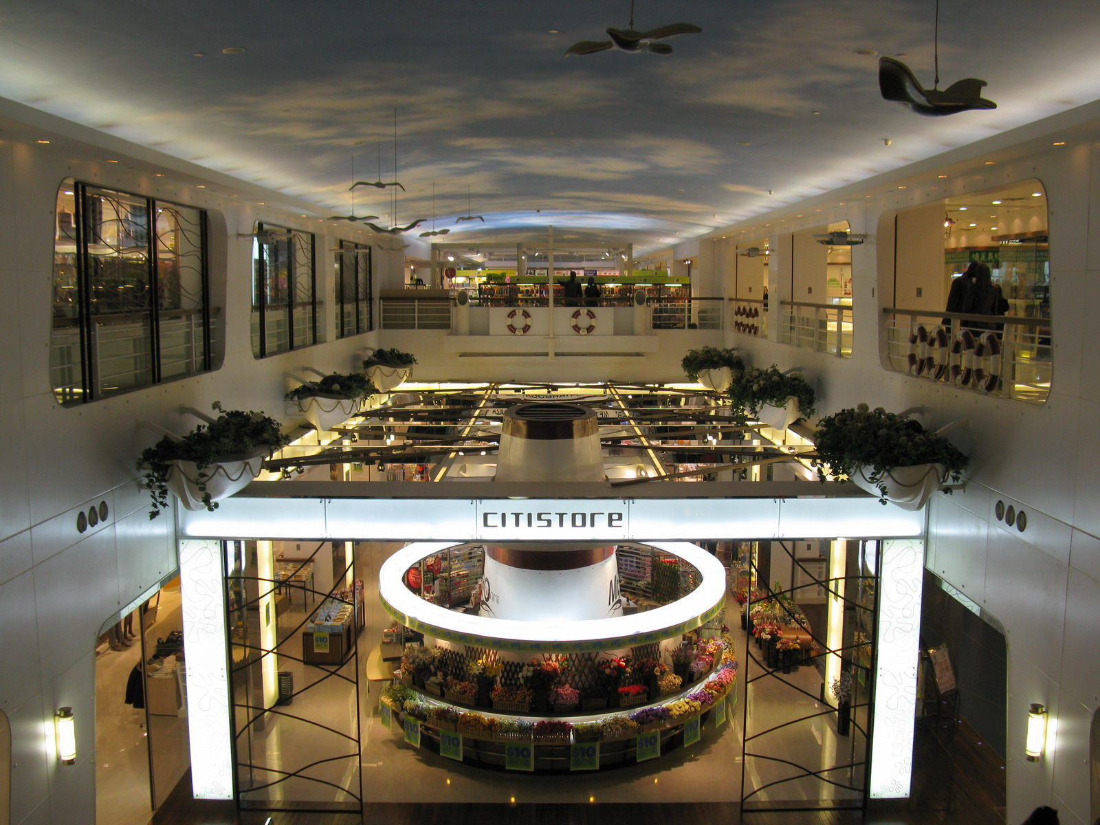 港灣豪庭廣場內的千色百貨 Citistore at Metro Harbour Plaza